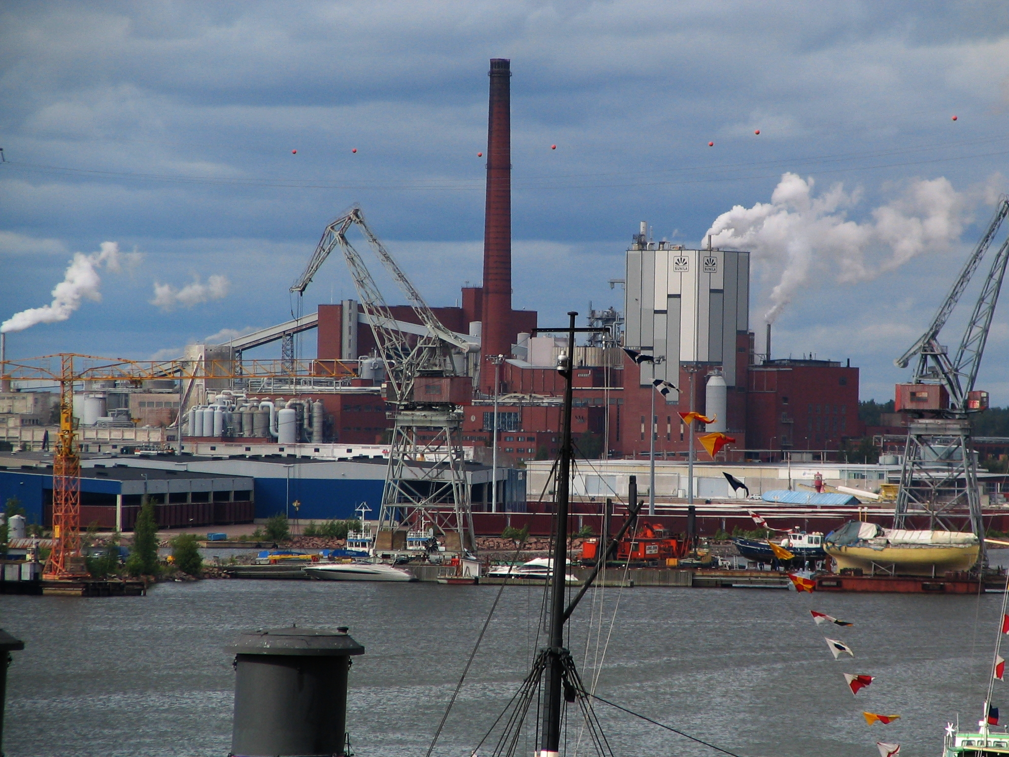 Sunila pulp mill in Kotka, Finland